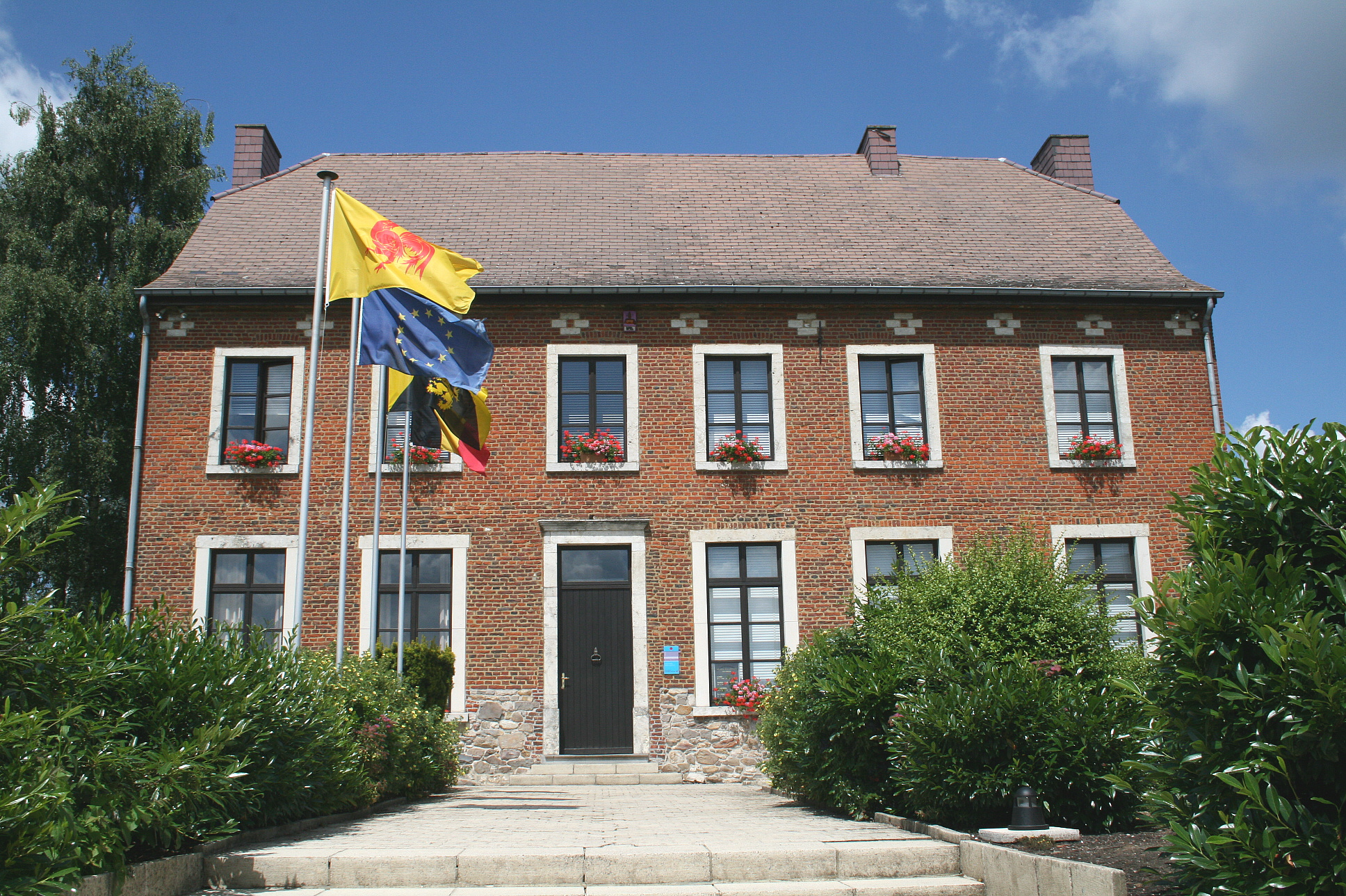 Incourt, the town hall. Walon: Incoûrt, li môjon comunale.